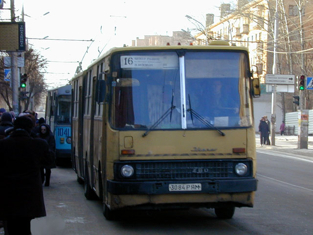 Ikarus bus in Ryazan